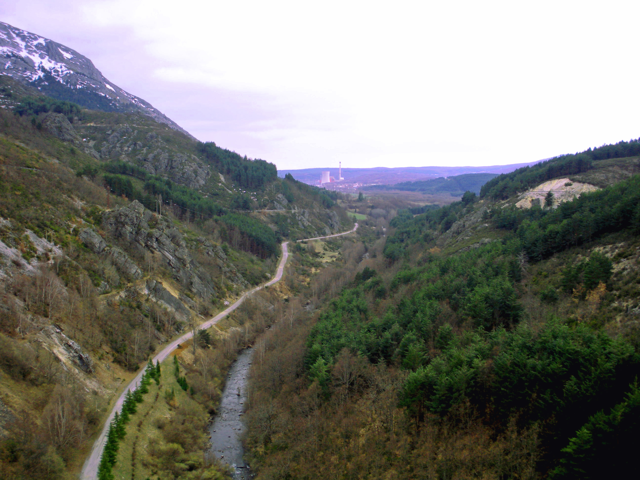 View of Velilla del Río Carrión, in the province of Palencia, Spain.